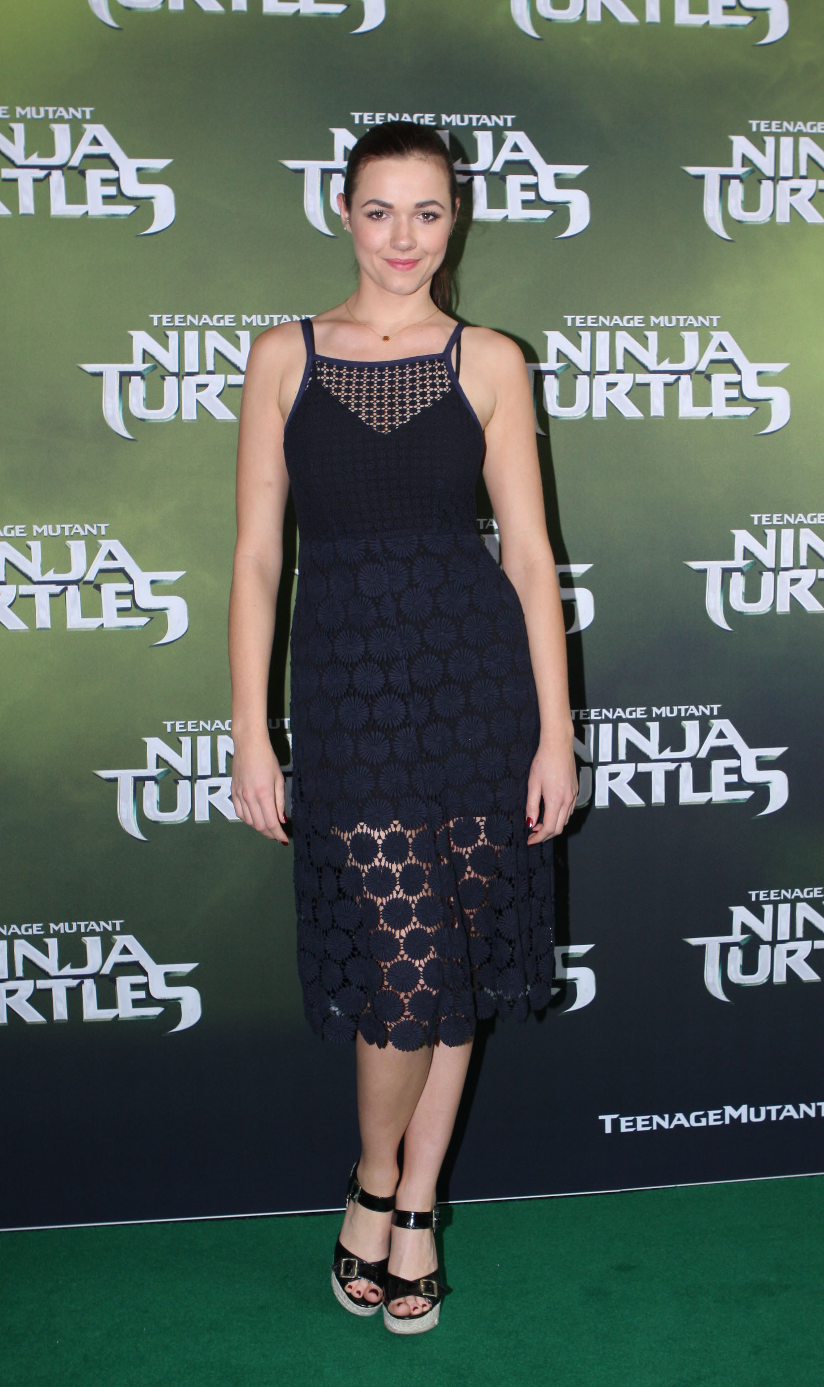 Demi Harman at Teenage Mutant Ninja Turtles Special Event in Sydney, Australia, September 2014